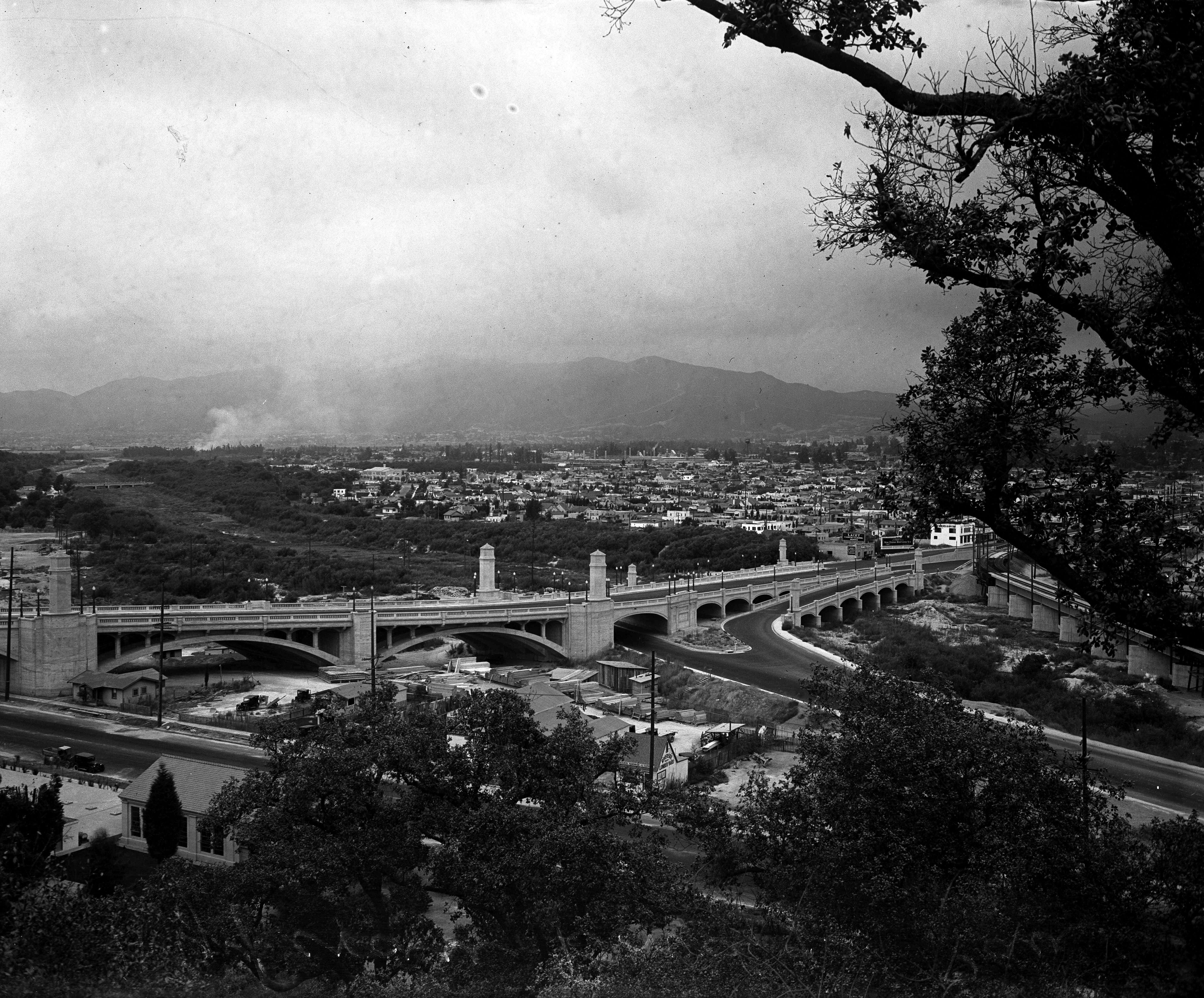 Title: Panoramic view of Glendale-Hyperion bridge with the Los Angeles River and the hills, circa 1927 Publication:Los Angeles Times Publication date:1927 Source:Los Angeles Times photographic archive, UCLA Library Licensing Note about non-renewal of copyright: [1]